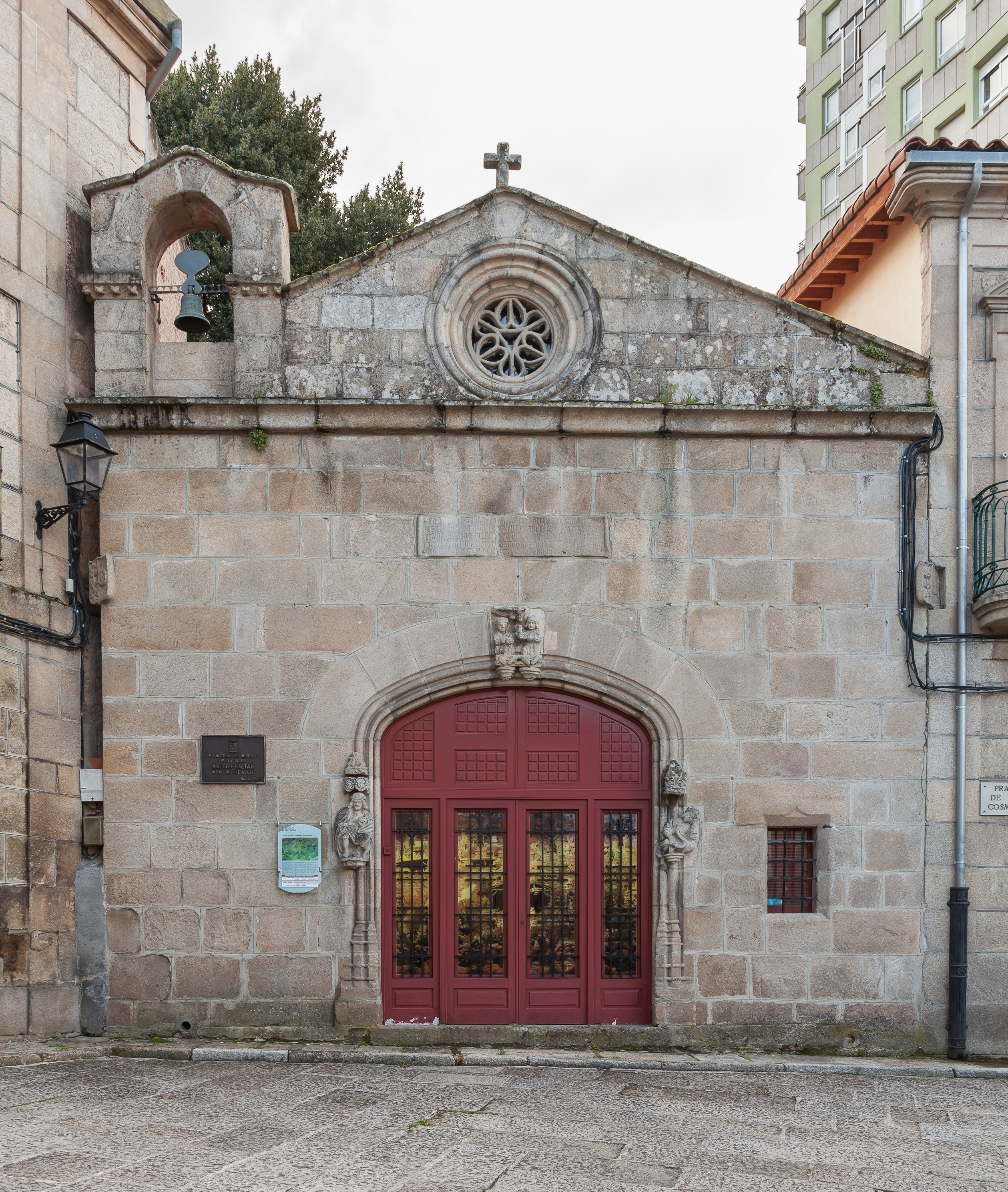 Museum of the Belen by Arturo Baltar, Galicia (Spain)